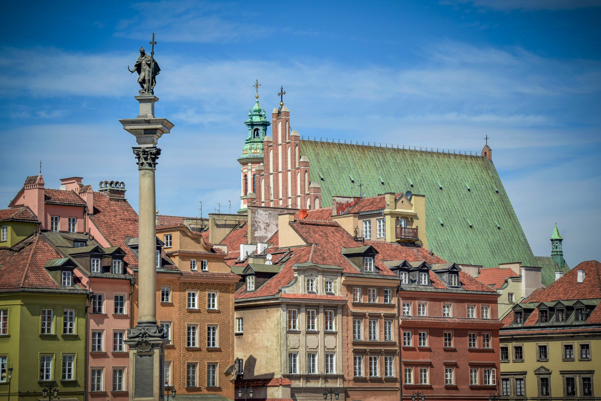 500px provided description: A statue of Polish king - Zygmunt III Waza, in old town in Warsaw, Poland [#city ,#architecture ,#poland ,#statue ,#old town ,#king ,#capital ,#warsaw ,#marketplace ,#zygmunt III waza]